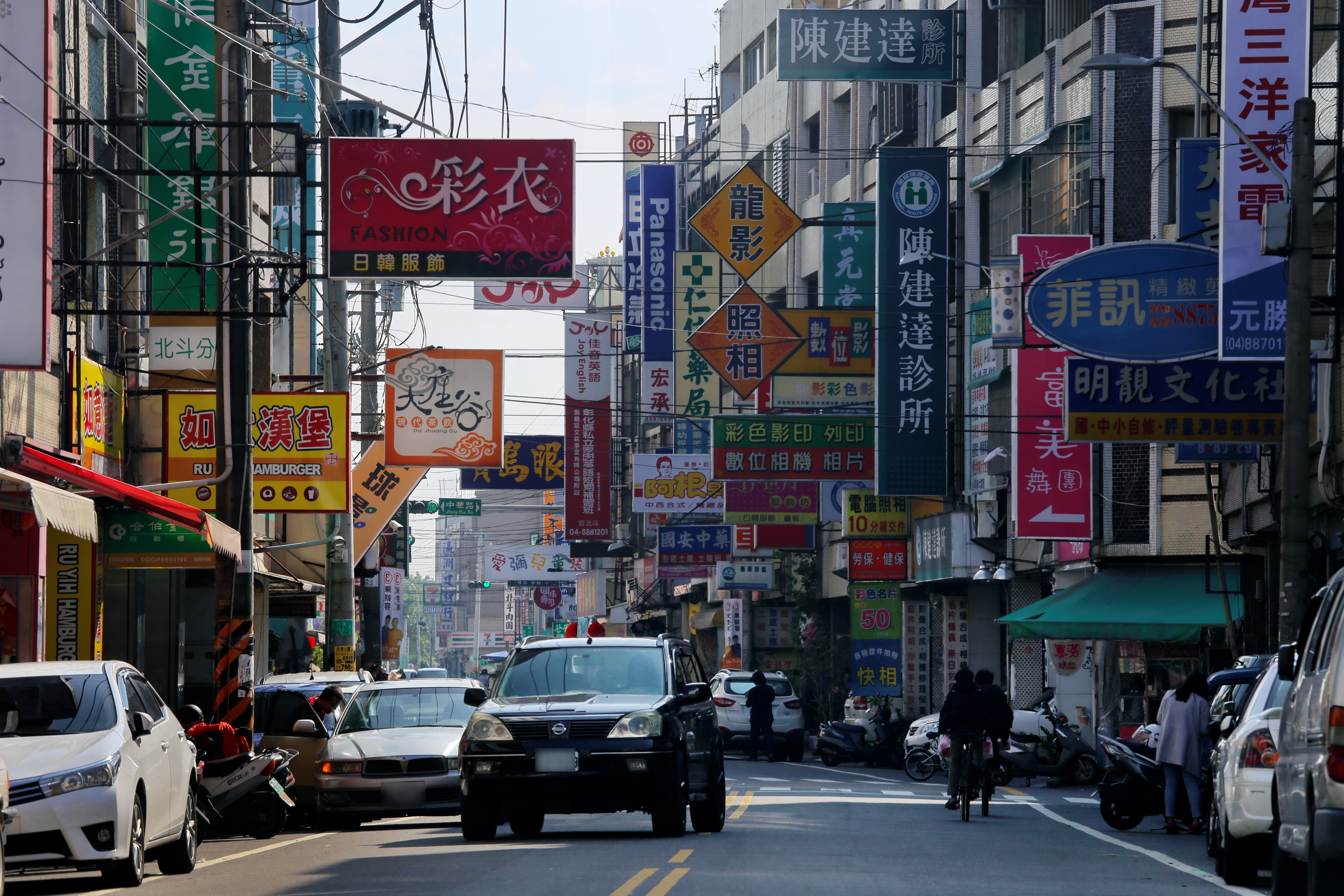 Jhongjheng Road (Zhongzheng Road), Beidou, Changhua, Taiwan.